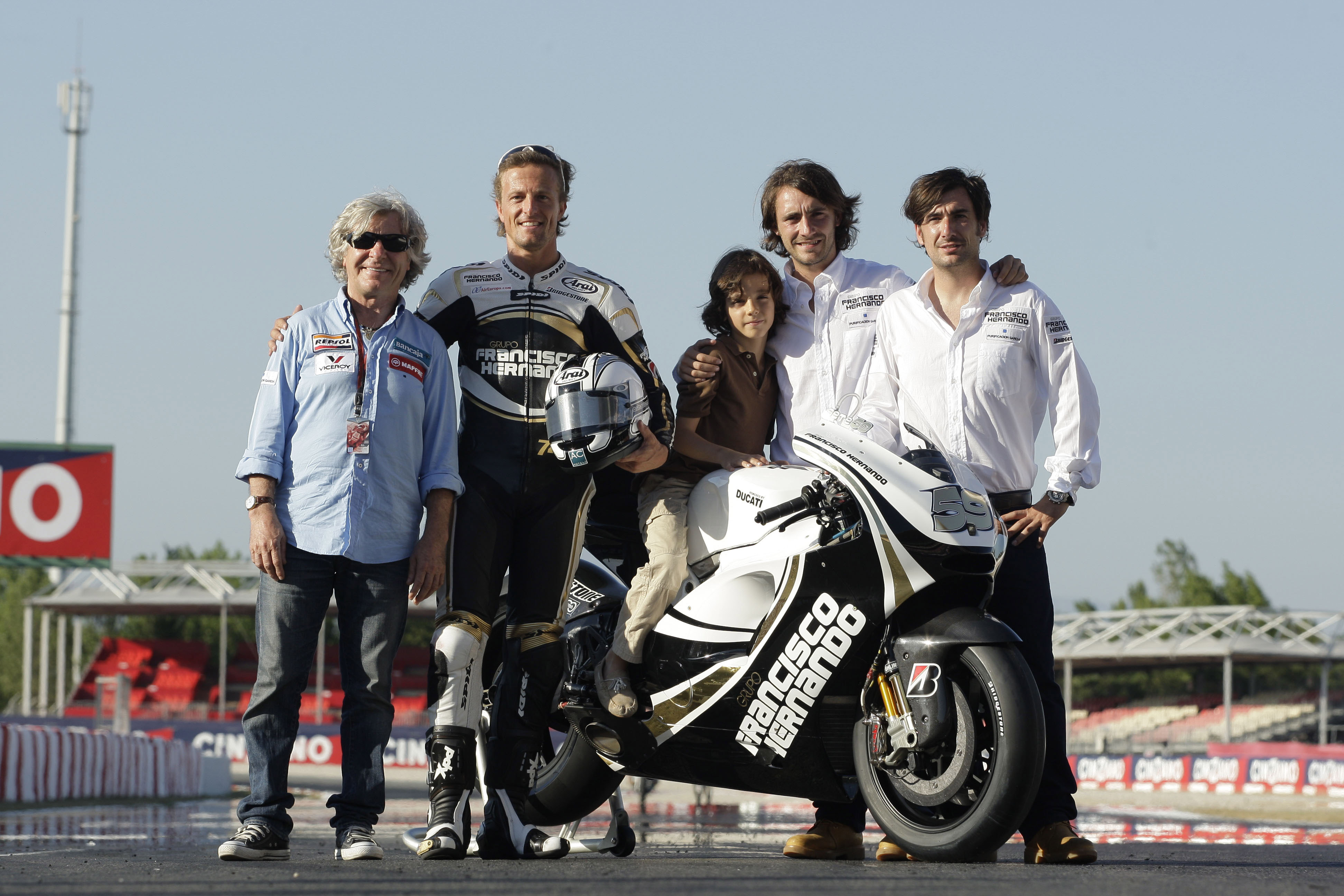 Ángel Nieto, posing next to the Grupo Francisco Hernando Ducati of Sete Gibernau before the start of the 2009 Spanish Grand Prix.